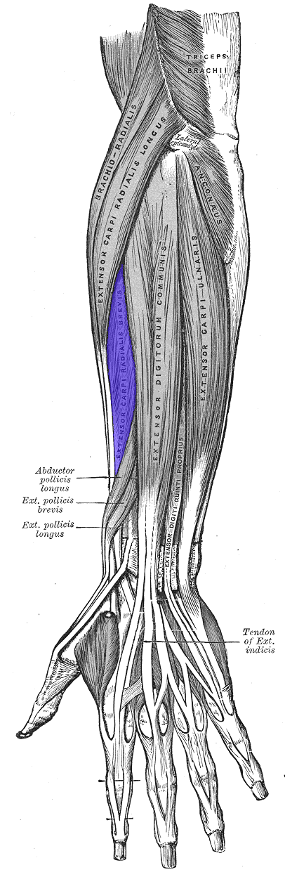 Image of the Extensor Carpi Radialis Brevis muscle